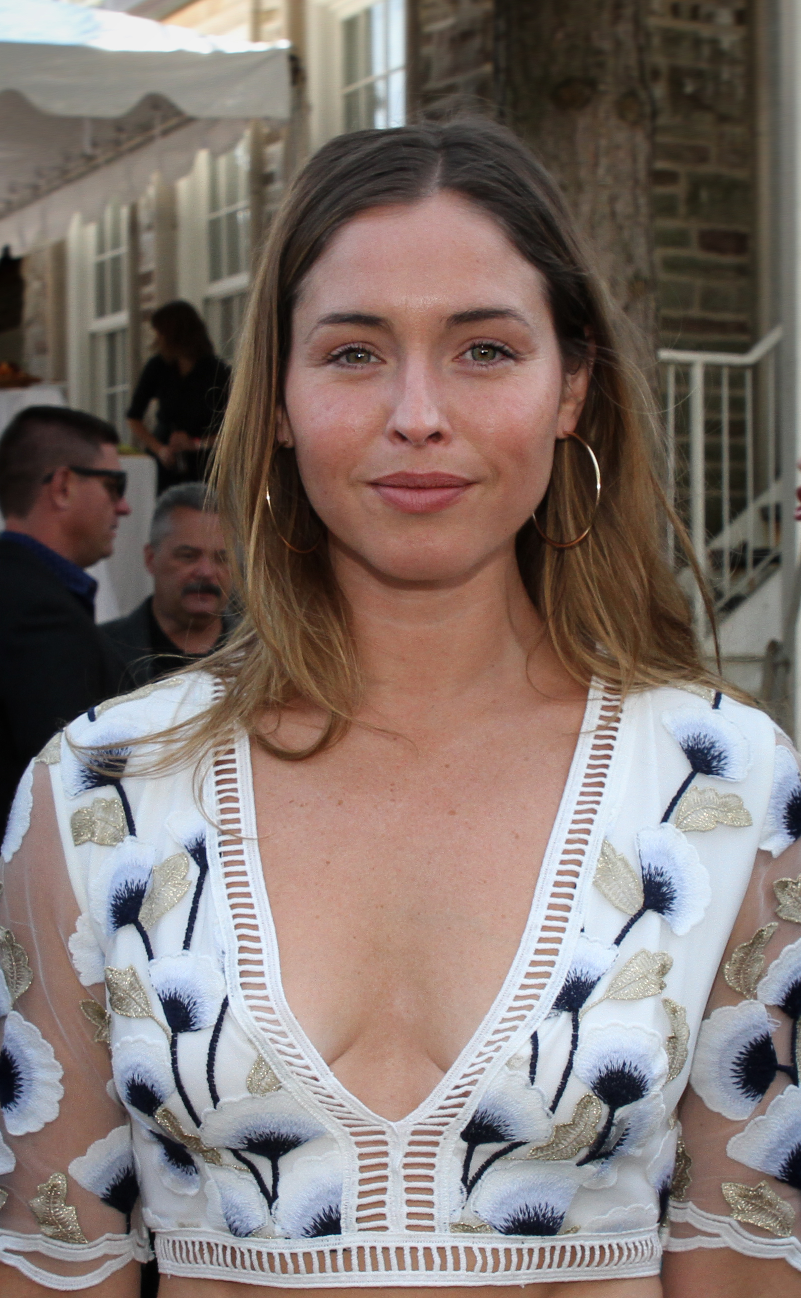 Natalie Krill, alumna of the CFC's Actors Conservatory, at the 2017 CFC Annual BBQ Fundraiser. Photo by Danilo Ursini.